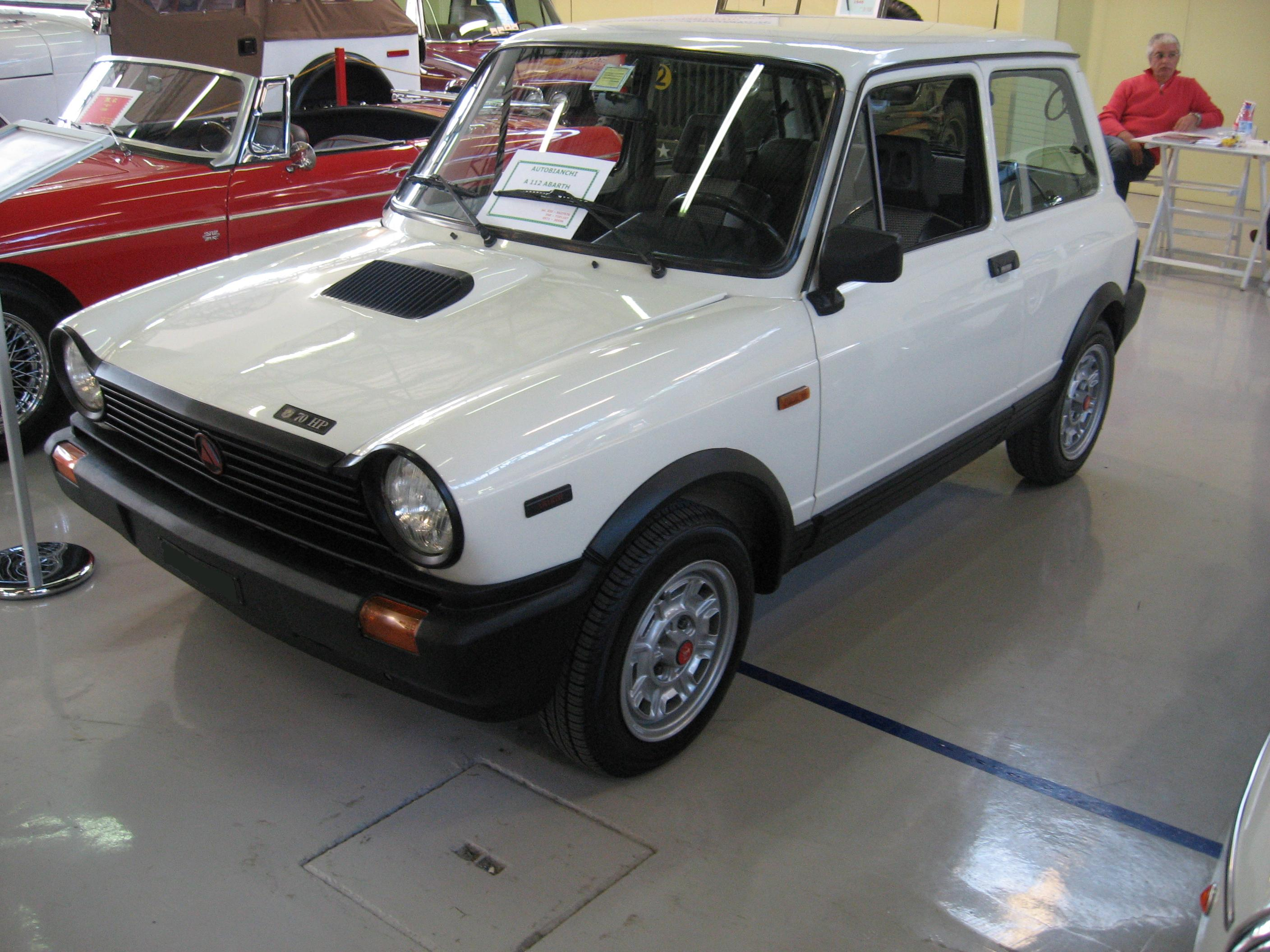 Subject:Autobianchi A112 Abarth 6ª serie del 1982 Author: Luc106 Date: 18th March 2007 City/Country: Forlì (Italy) Event: Old Time Show I release all rights in the public domain.